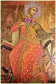 St catherine with wheel, icon from st. catherine's monastery-mt. sinai-17th c.